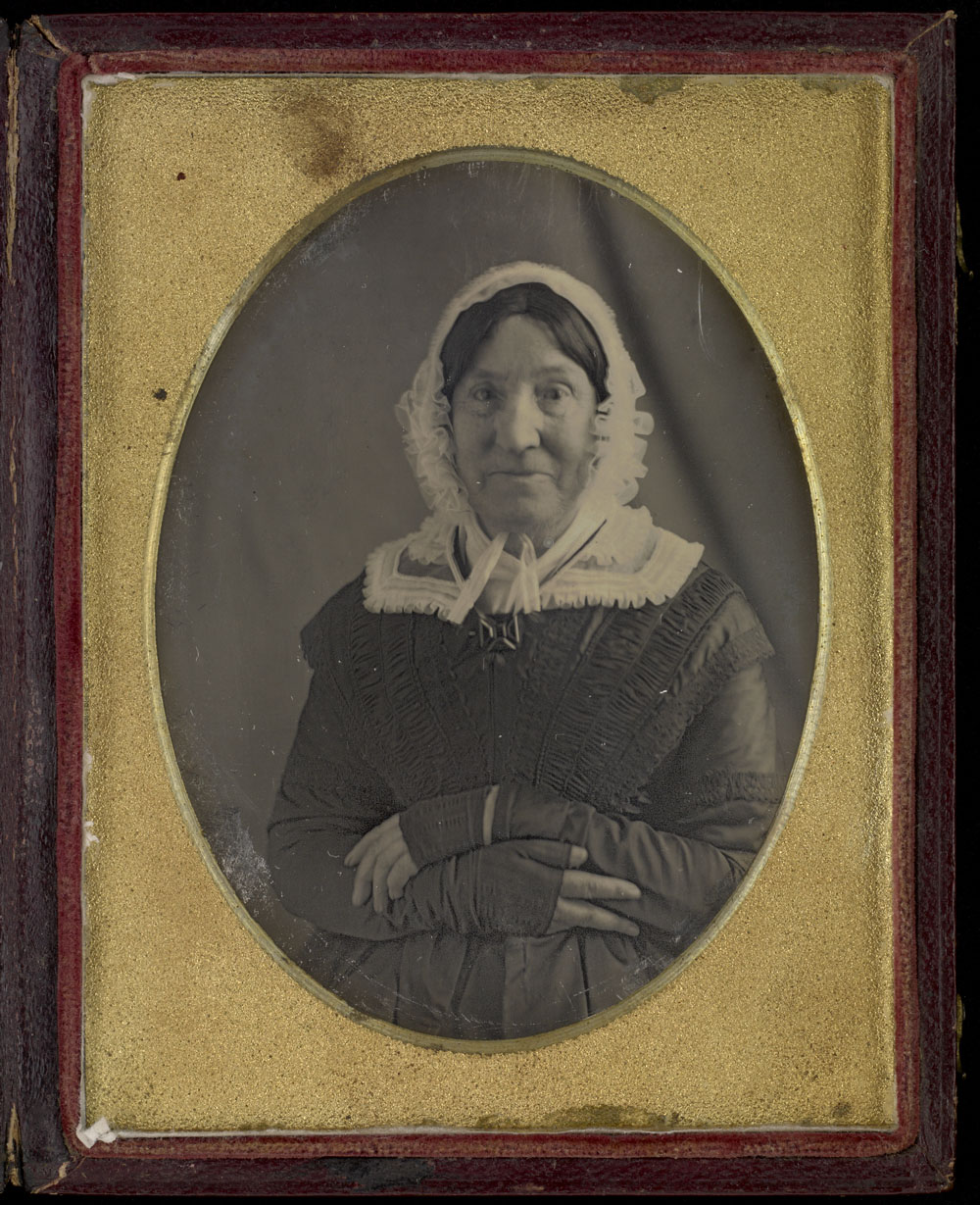 Mother of the first Canadian Prime Minister John A. Macdonald